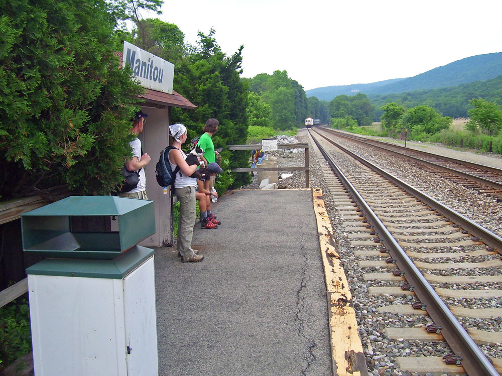 Photographed by Daniel Case 2007-06-09